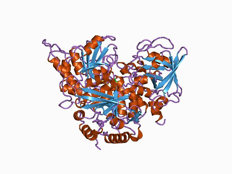 Cartoon representation of the molecular structure of protein registered with 1aco code.